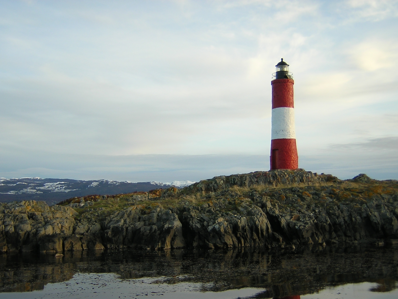 Les Èclairerus Lighthouse